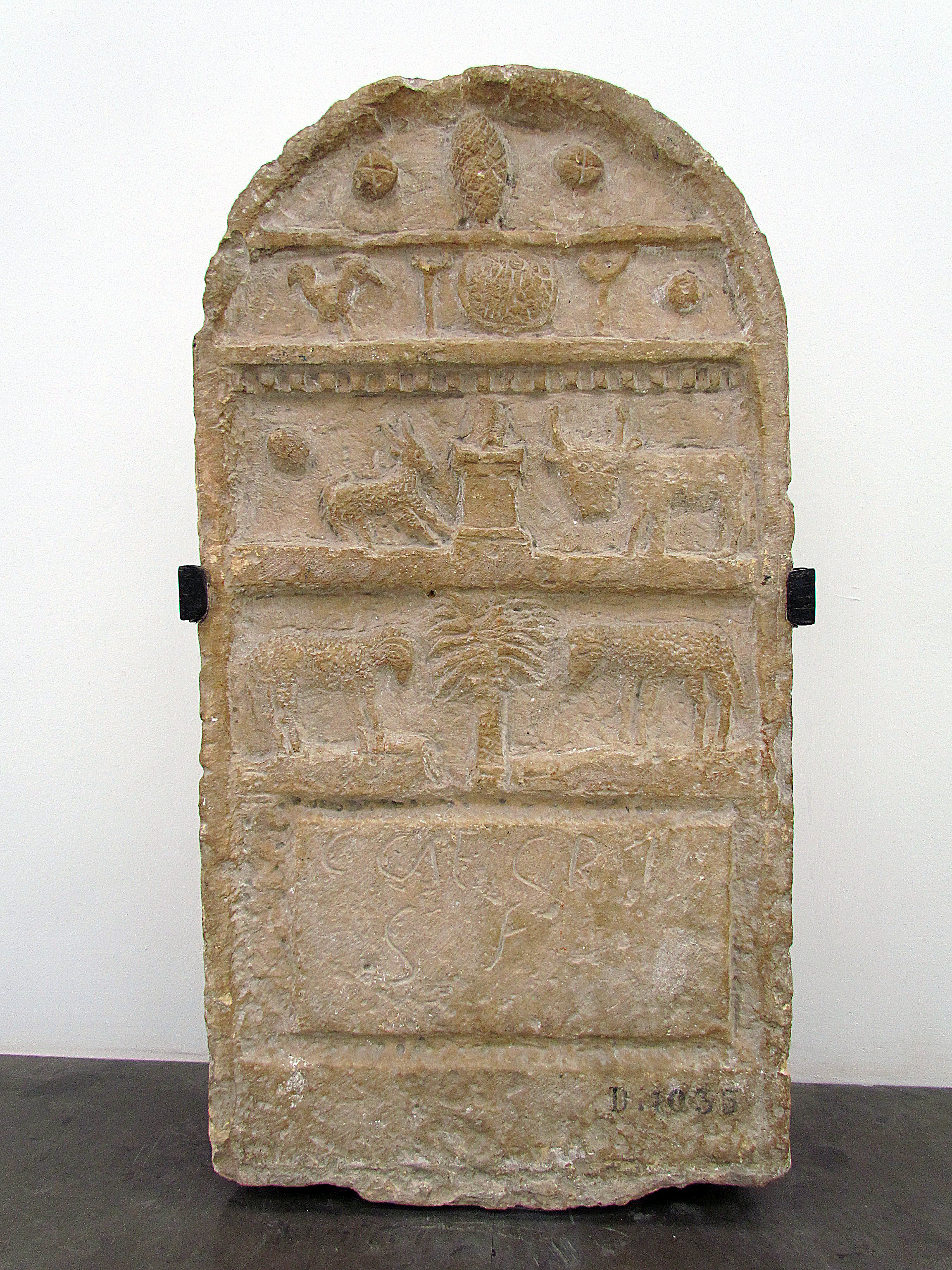 Numidian stela (Bardo Museum)